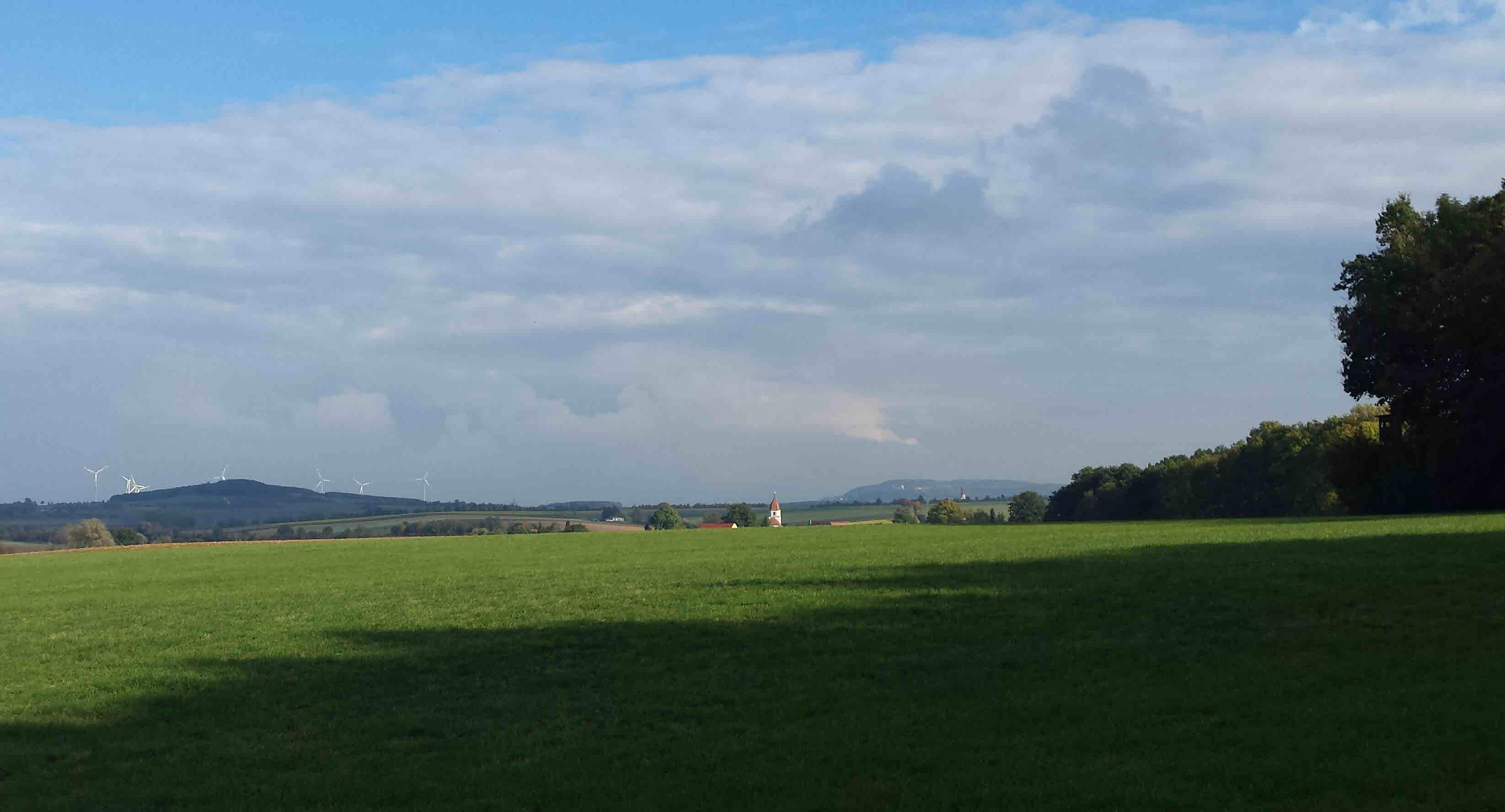 Altentrüdingen near Wassertrüdingen, Bavaria, Germany. In the background Spielberg Castle and the Franconian Alb mountains